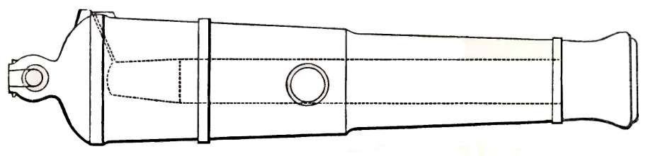 Diagram depicting British ML 8 inch 54 cwt gun.